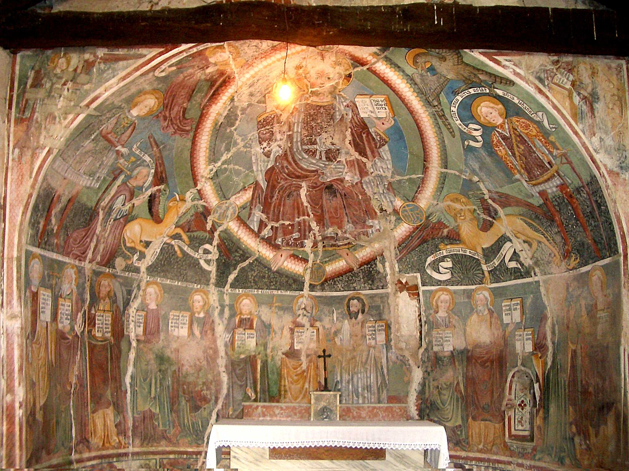 Caltignaga, Chiesa dei Santi Nazzaro e Celso (Sologno), View of the frescoes by Giovanni de Campo in the apse